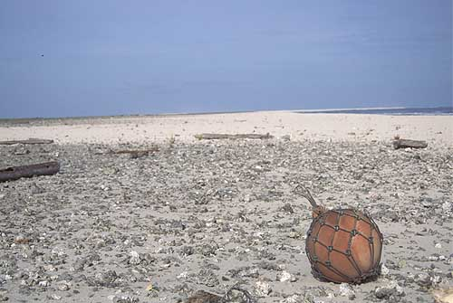 A fishnet float on the beach of Starbuck Island, Line Islands, Kiribati. Original description: Many of these floats for fishnets wash up on island beaches around the Pacific. The loss of the floats leaves the fishnets drifting in the open ocean where they may trap fish, birds, and marine mammals.